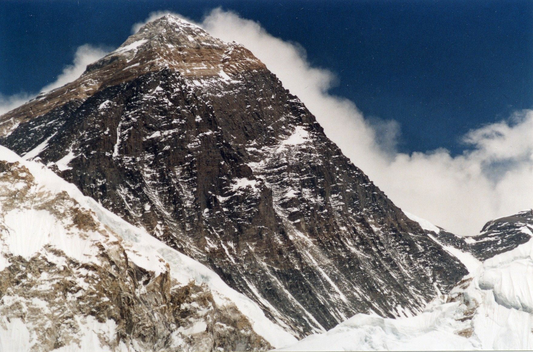 Mount Everest, view from Kala Patthar (5700 m)